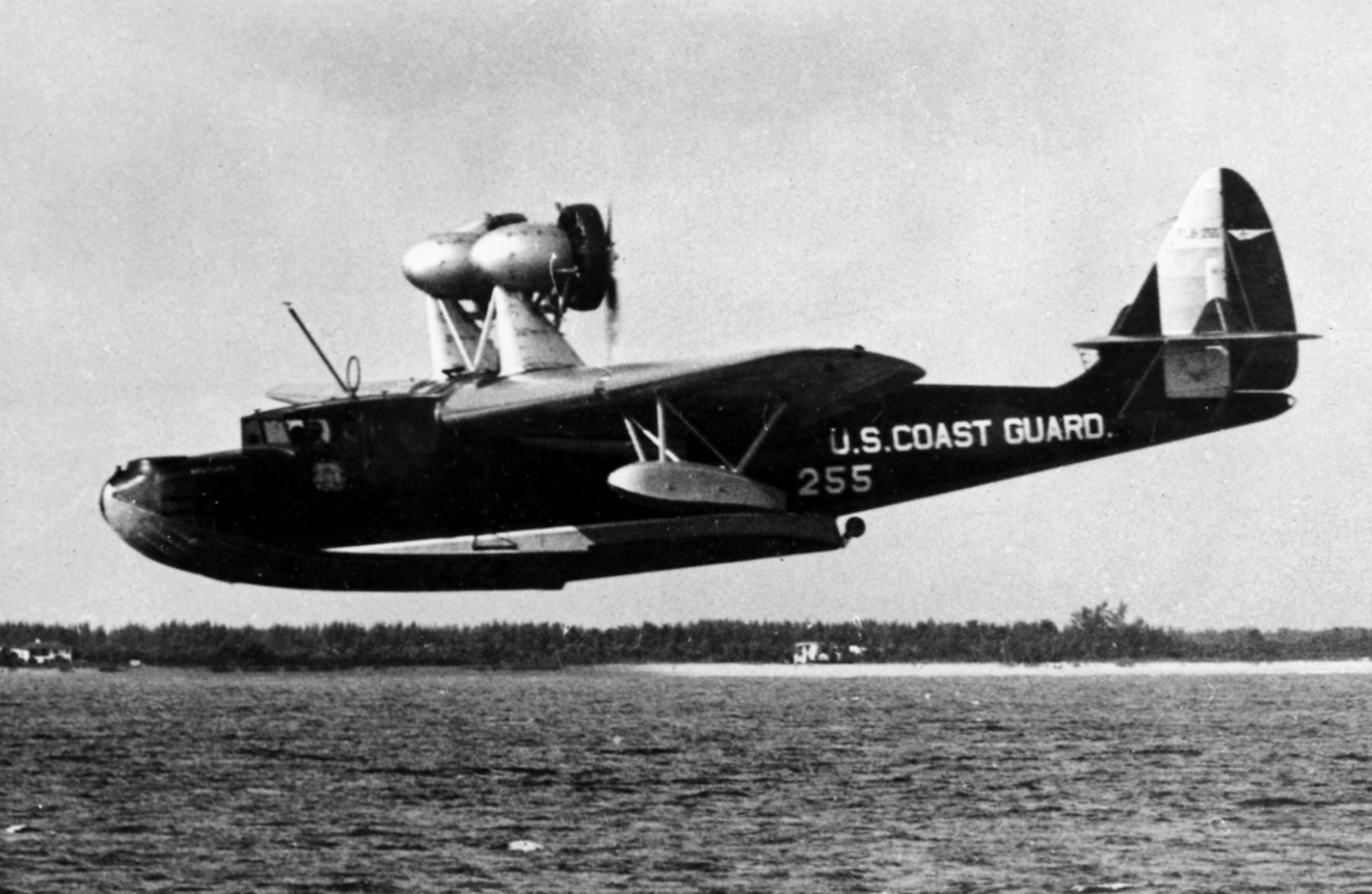 The U.S. Coast Guard General Aviation PJ-1 Arcturus (s/n CG-55, later V-115) in flight off Miami, Florida (USA), on 6 December 1934. The aircraft was commissioned in November 1932. In 1934 it was stationed at Coast Guard Air Station Miami. Later, it was assigned to CGAS Salem, Massachusetts, before being transferred to CGAS St. Petersburg, Florida on 11 December 1938. It was decommissioned in August 1941.